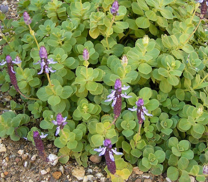 Plectranthus arabicus